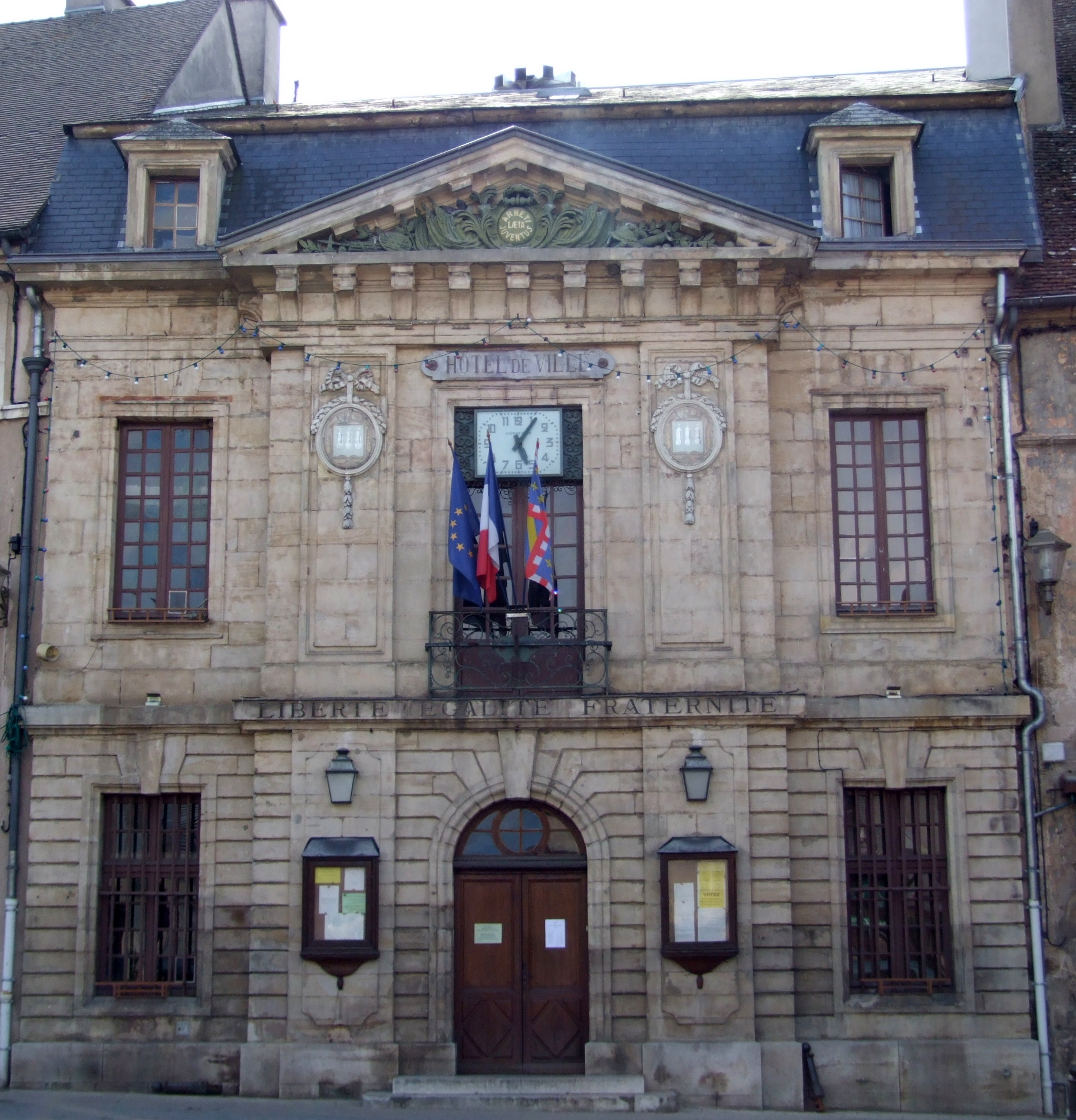 Arnay-le-Duc, Burgundy, FRANCE